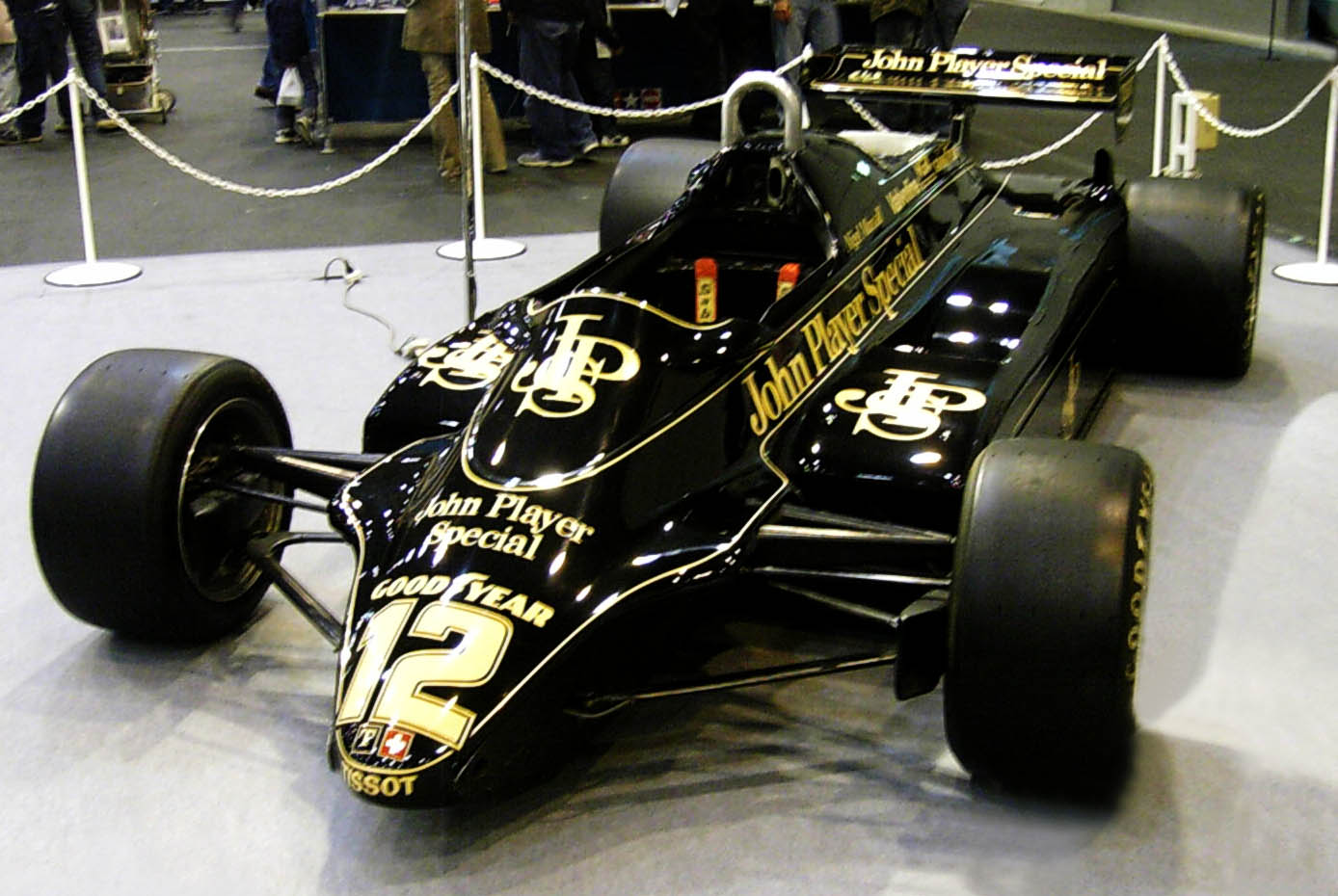 The Lotus 91 Formula One car being exhibited in Japan. A Nigel Mansell's car. Owner: Tamiya Corporation